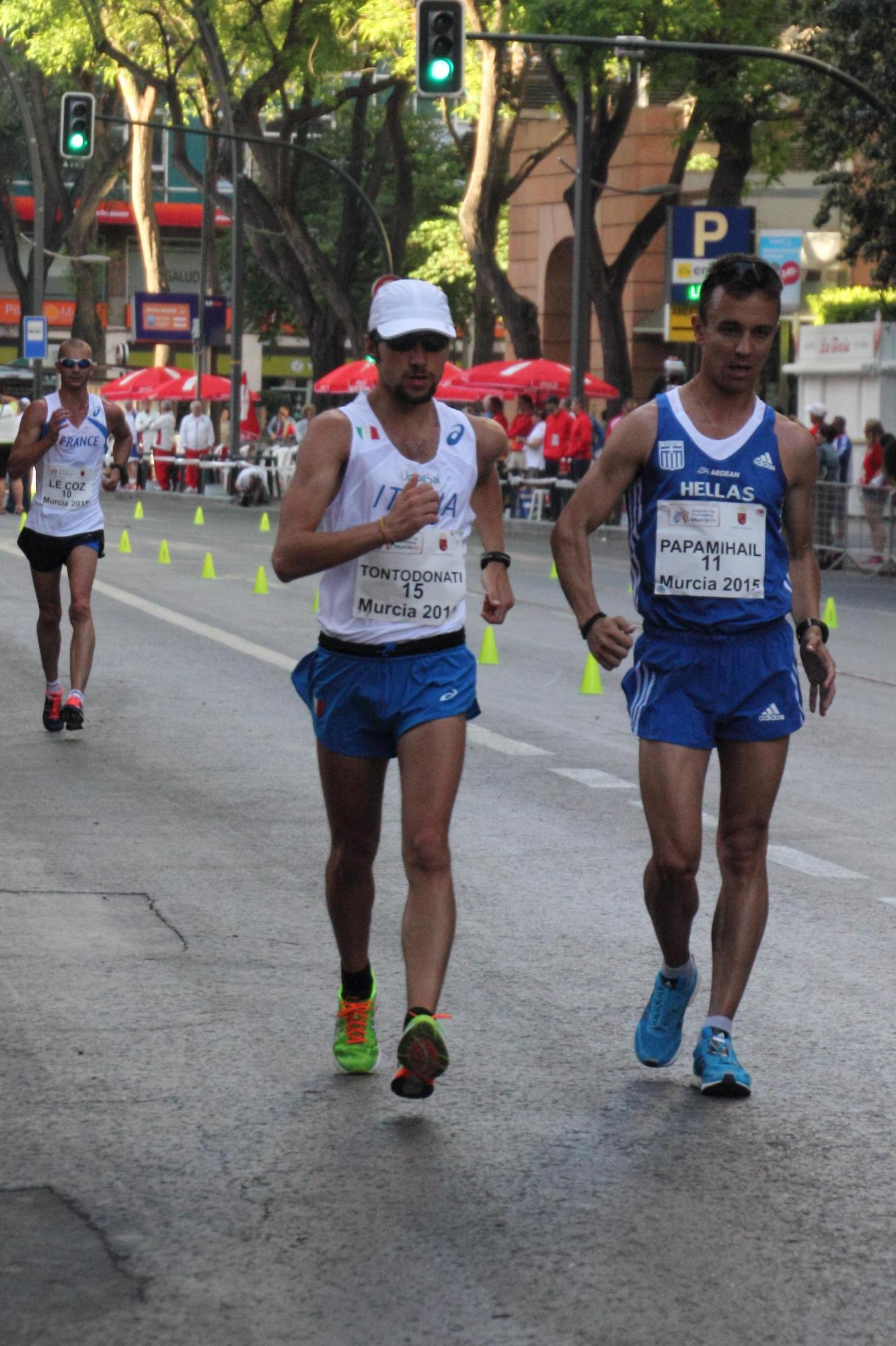 11-Aléxandros Papamihaíl (GRE) and 15-Federico Tontodonati (ITA) in the European Cup Race Walking 2015 (Murcia, Spain).